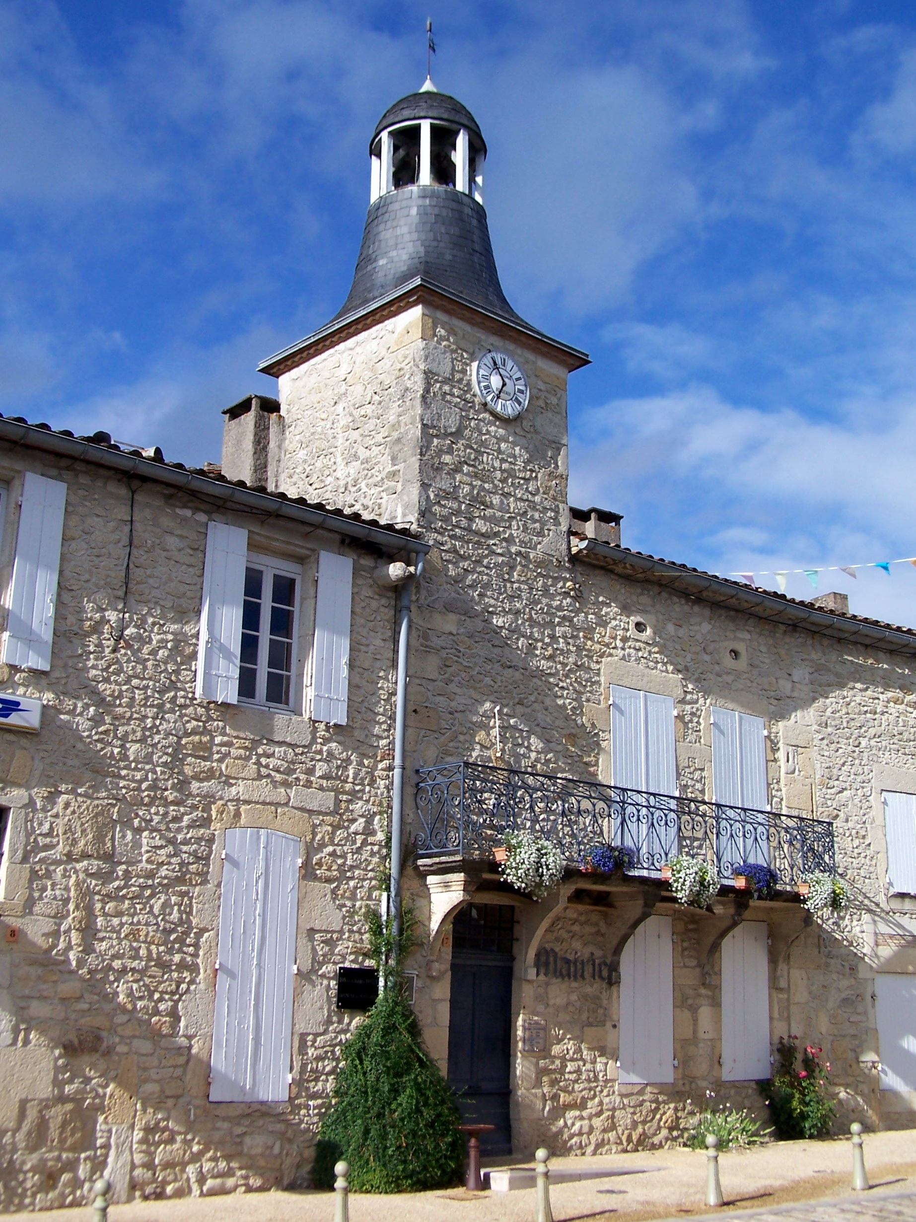 Town hall of Pellegrue (Gironde, France)